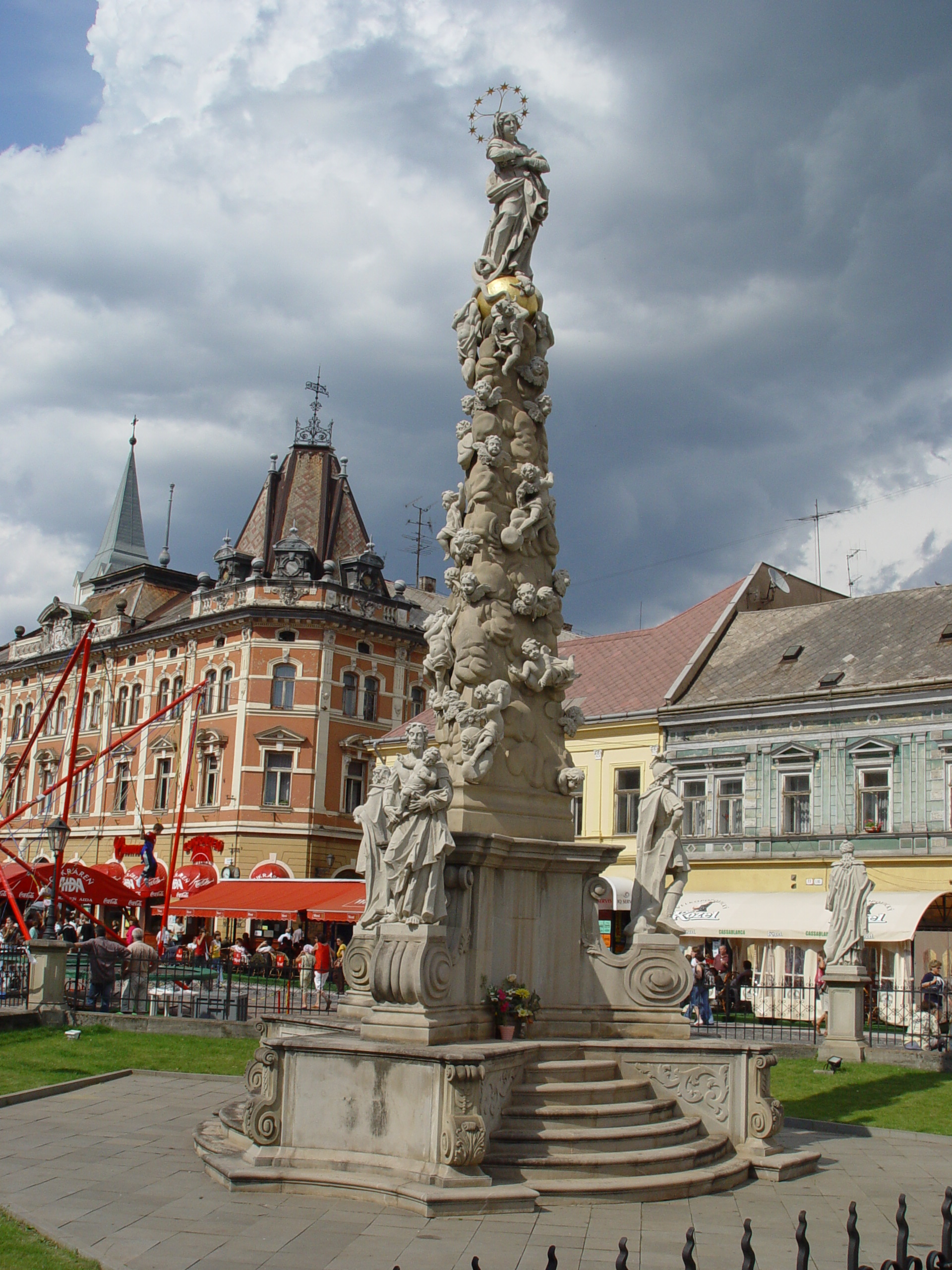 Slovakia, Kosice, Statue Immaculata on Main Street